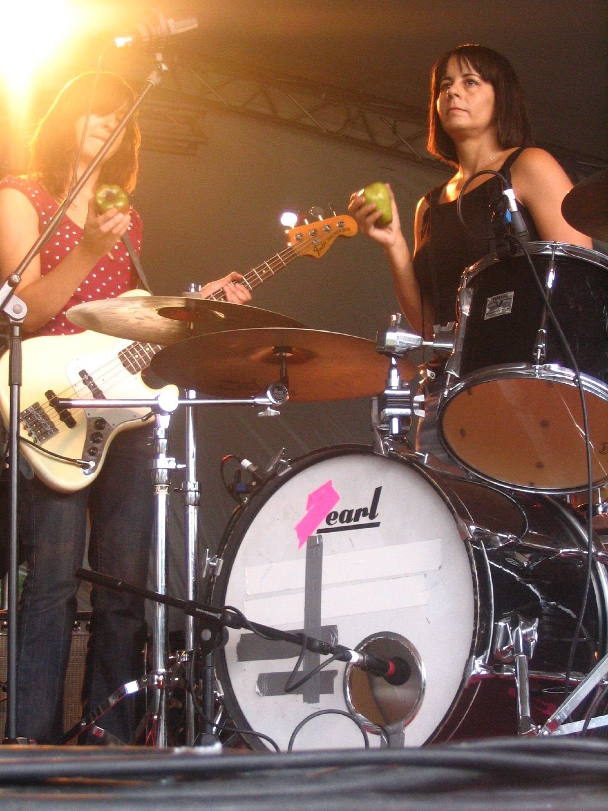 Quasi at The Green Man Festival 19.08.2006